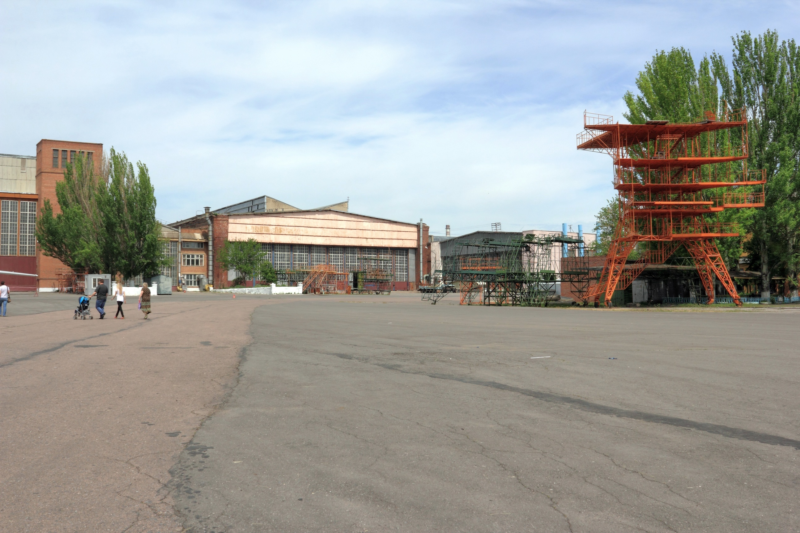 Taganrog. Beriev Aircraft Company